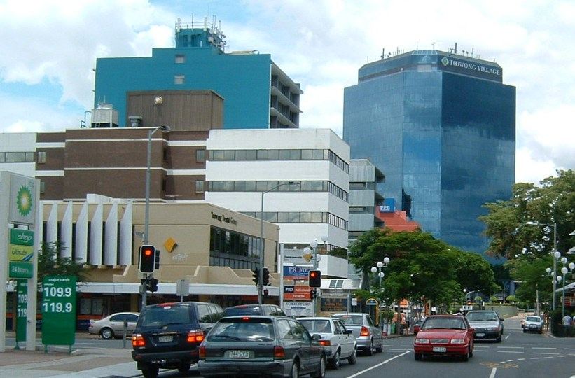 Toowong Village looking south along Sherwood Road, north of the Jephson Street intersection. Photo taken by User:Adz on 8 August 2005.